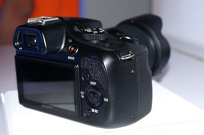 Sony Alpha ILCE-3000.